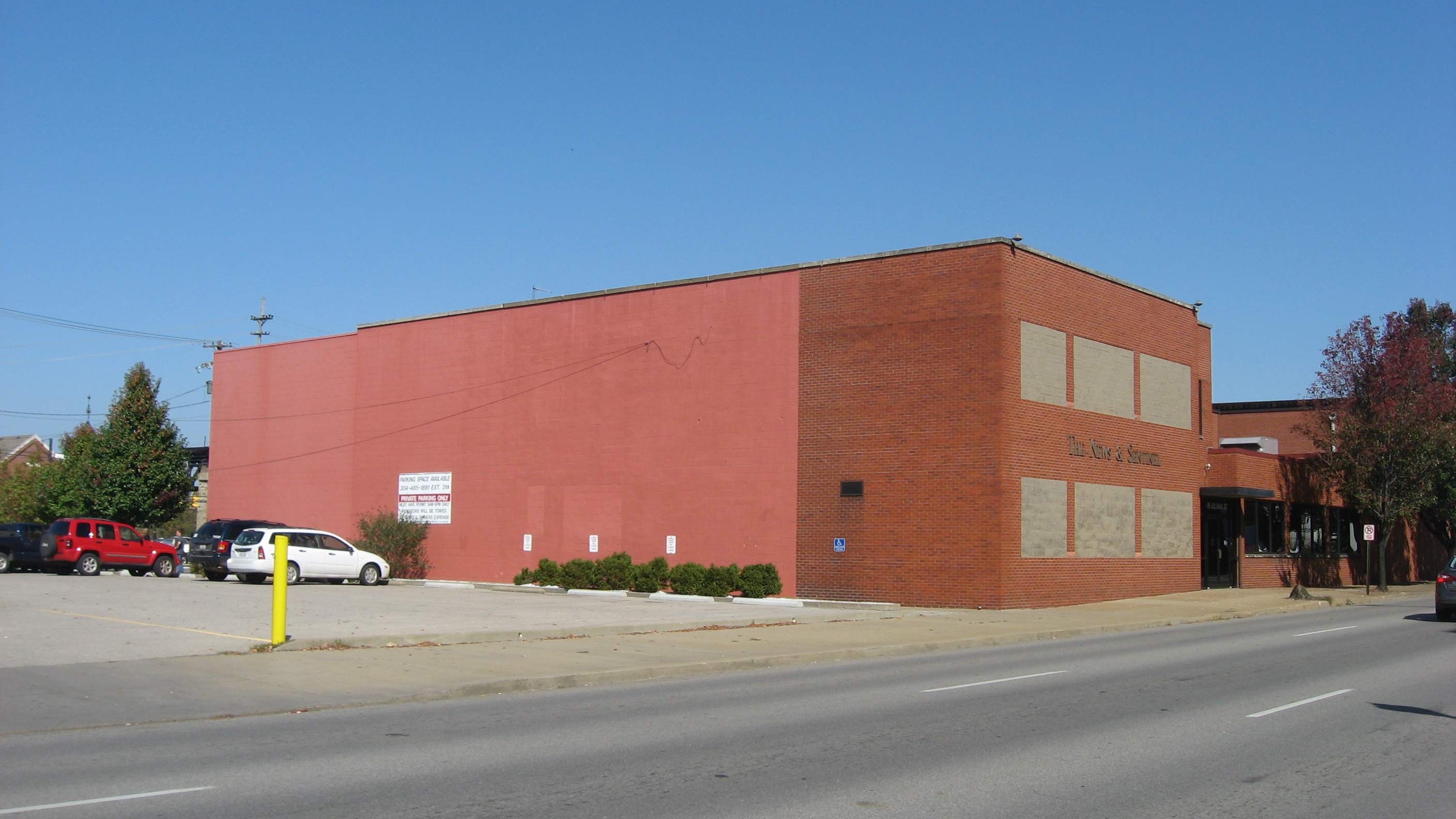 Offices of The Parkersburg News and Sentinel, located at 519 Juliana Street (West Virginia Routes 14/68) in Parkersburg, West Virginia, United States. This was formerly the location of the Parkersburg Elks Club; built in 1903 and listed on the National Register of Historic Places in 1982, it has been demolished but has not yet been de-designated.